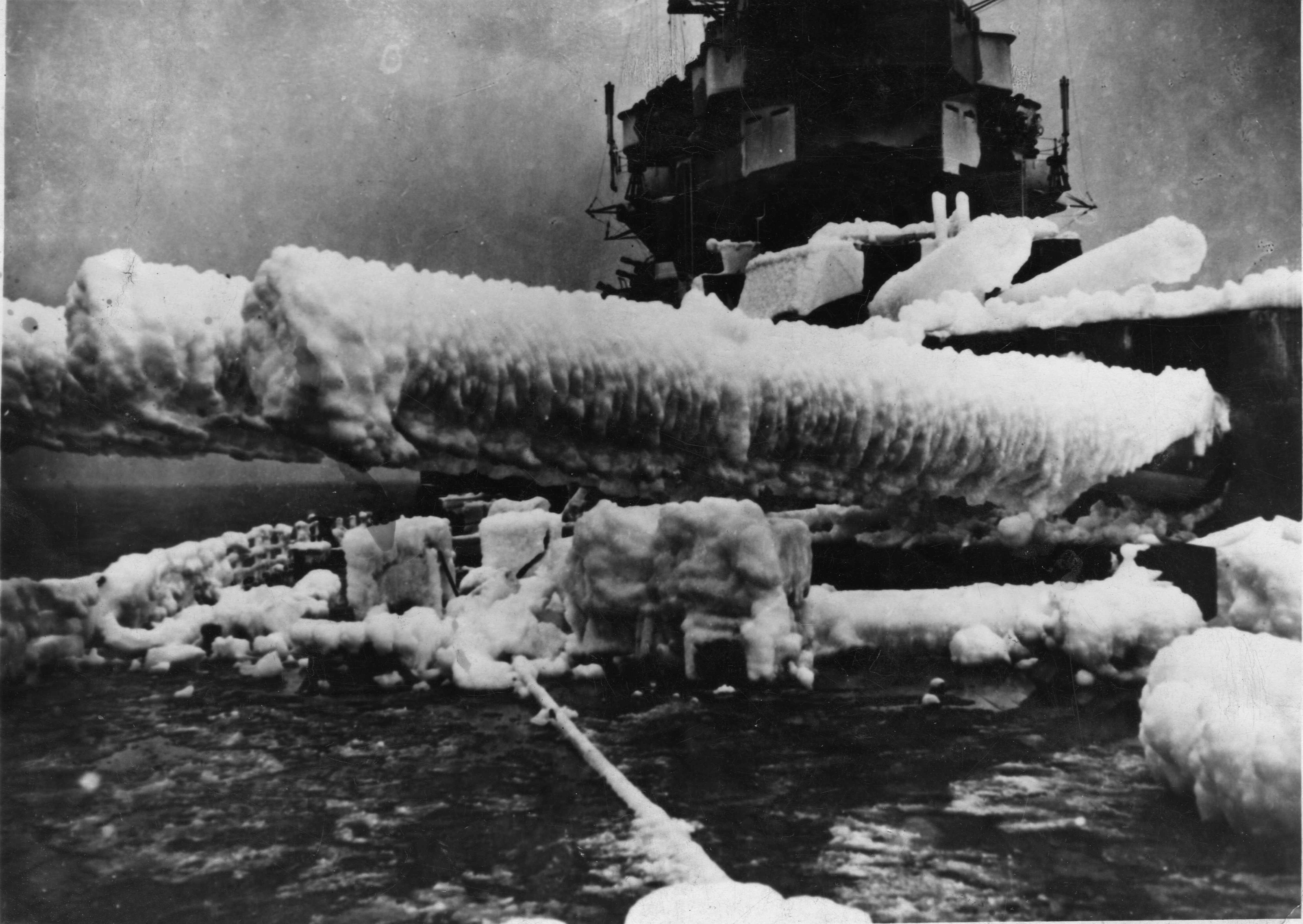 HMS Anson's guns iced up while on Russian Convoys circa 1942/3.